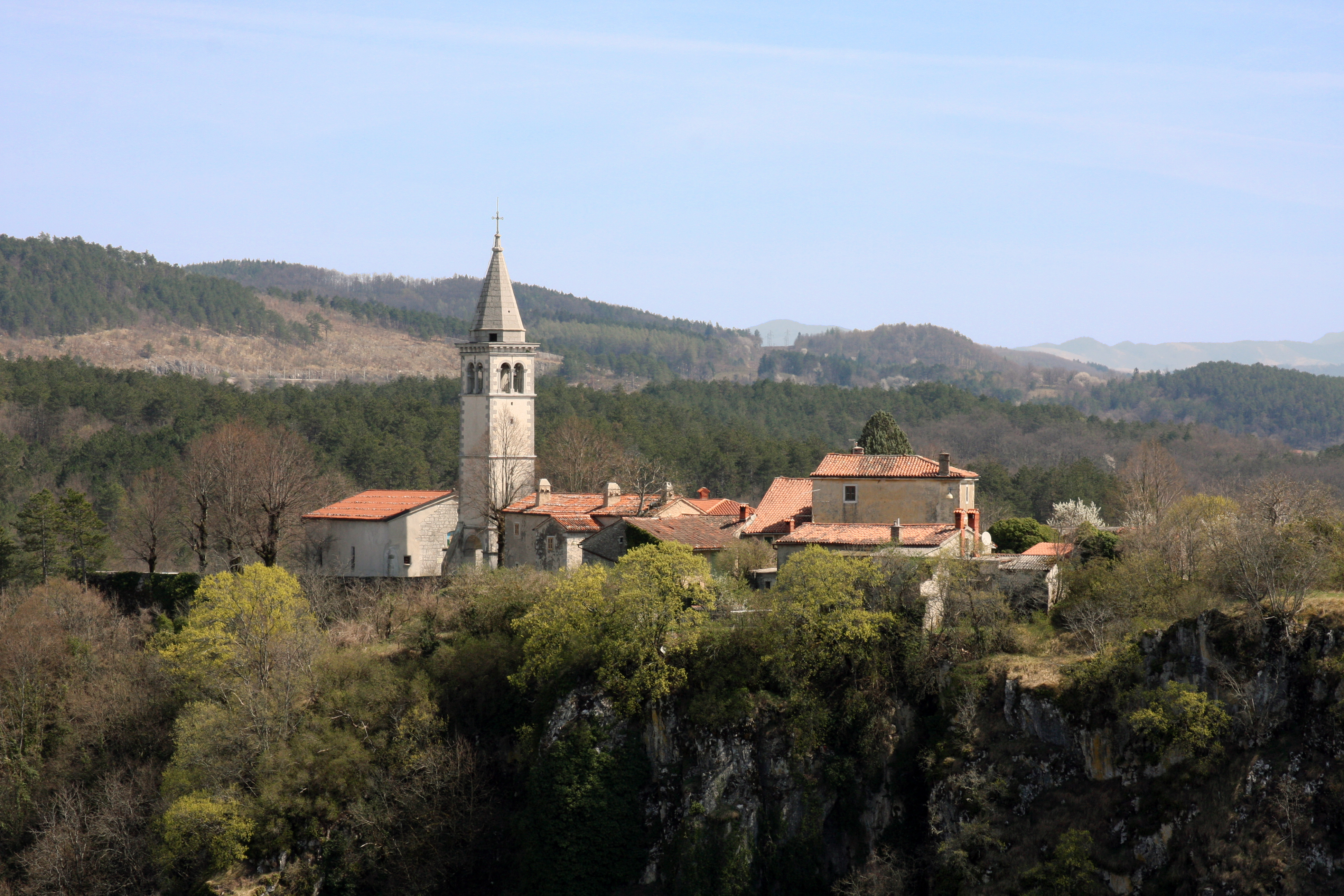 Slovenian Castle - Karst region caves